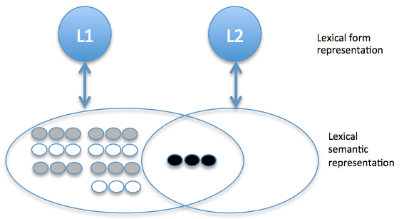 Diagram to help explain the Sense Model